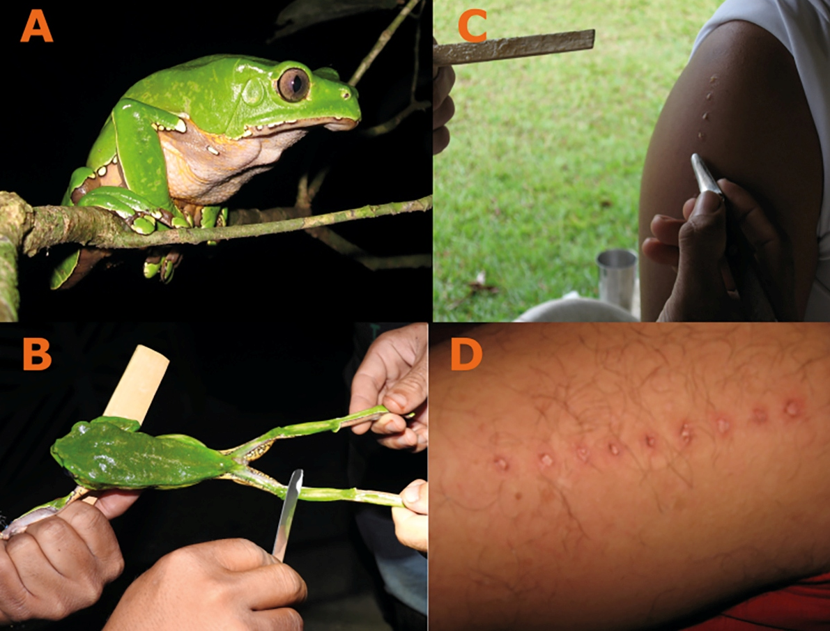 FIGURE 1: (A) Kambô frog (Phyllomedusa bicolor); (B) Removal of amphibian skin secretion P. bicolor; (C) Application of Kambô; (D) Marks on the shoulder after application of Kambô.